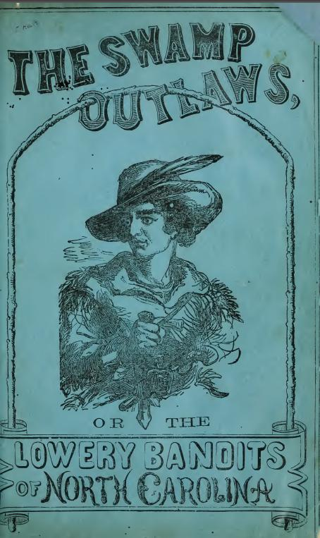 Illustration from George Alfred Townsend: The Swamp Outlaws: or The North Carolina Bandits; Being a Complete History of the Modern Rob Roys and Robin Hoods., Robert M. DeWitt, New York, 1872